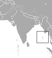 Andaman Spiny Shrew (Crocidura hispida) range